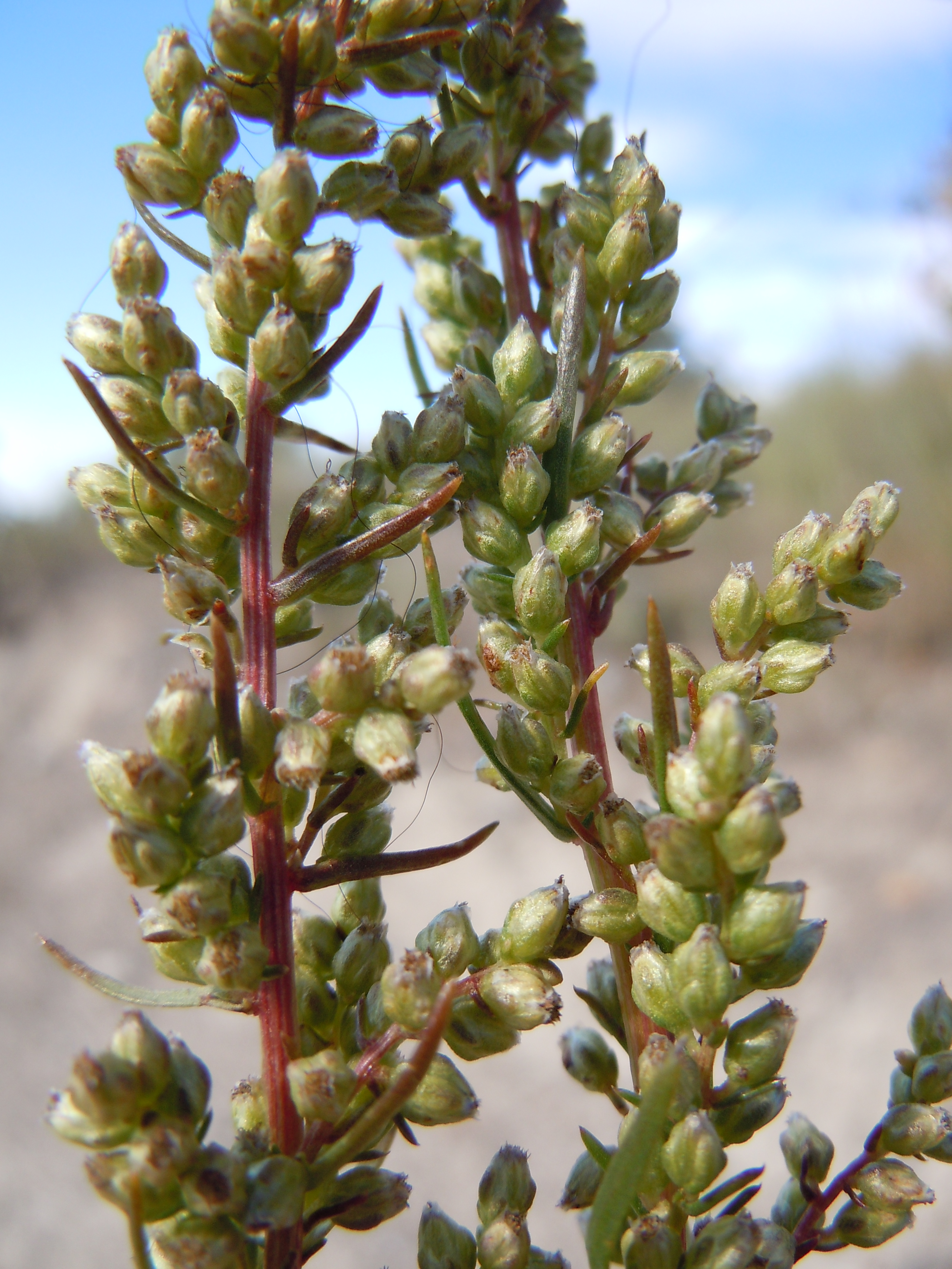 The reddish stems, glabrous involucral bracts, and pinnate (pinnatifid) to simple leaves or bracts among the flowering heads is characteristic of this species.